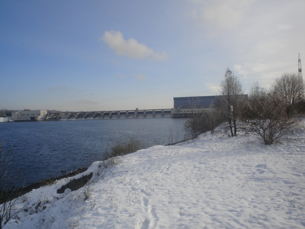 View of Hydro-Electric-Powerstation in Kegums, Latvia